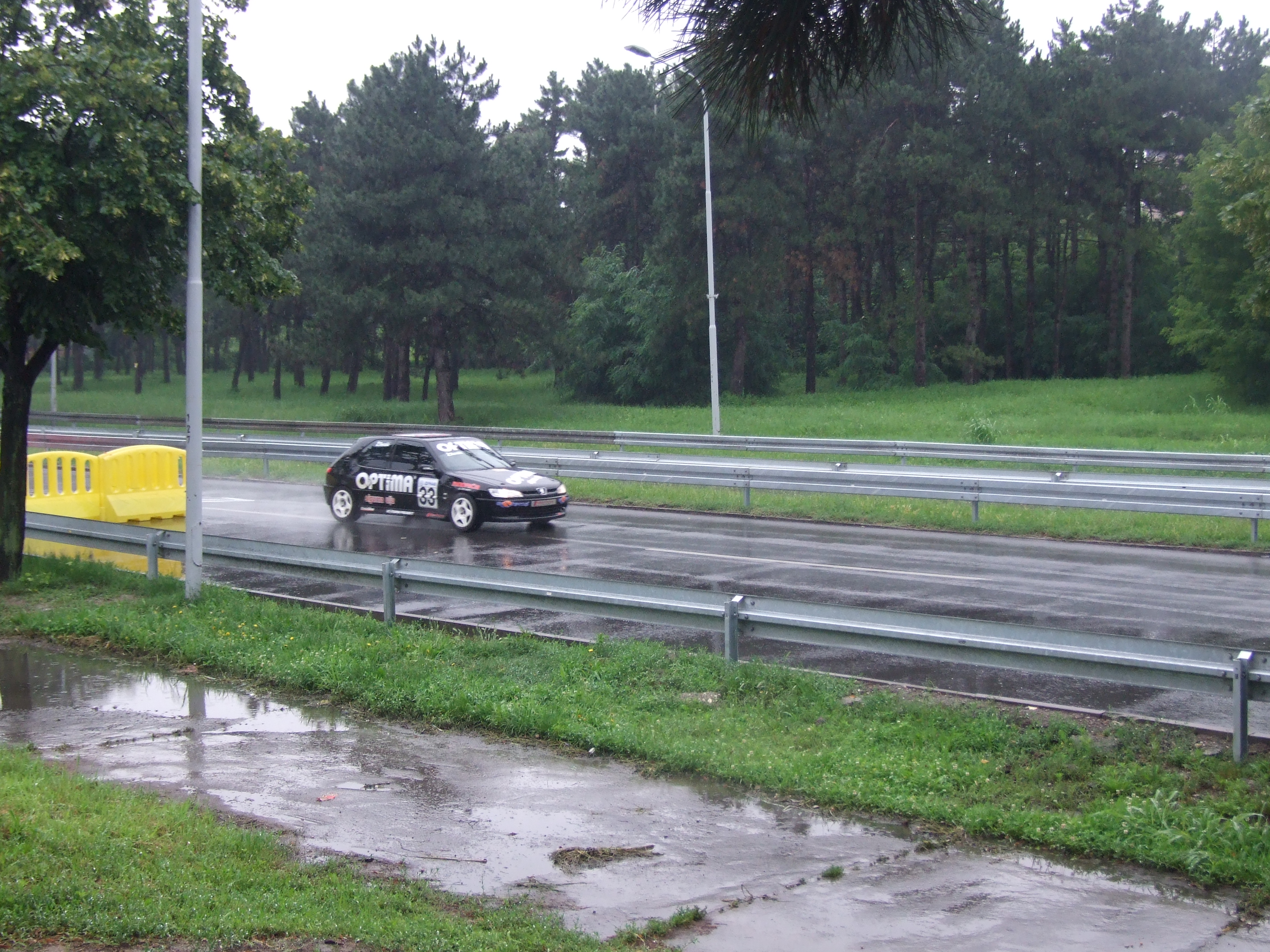 Belgrade 24h Race, 27 june 2010. Belgrade.